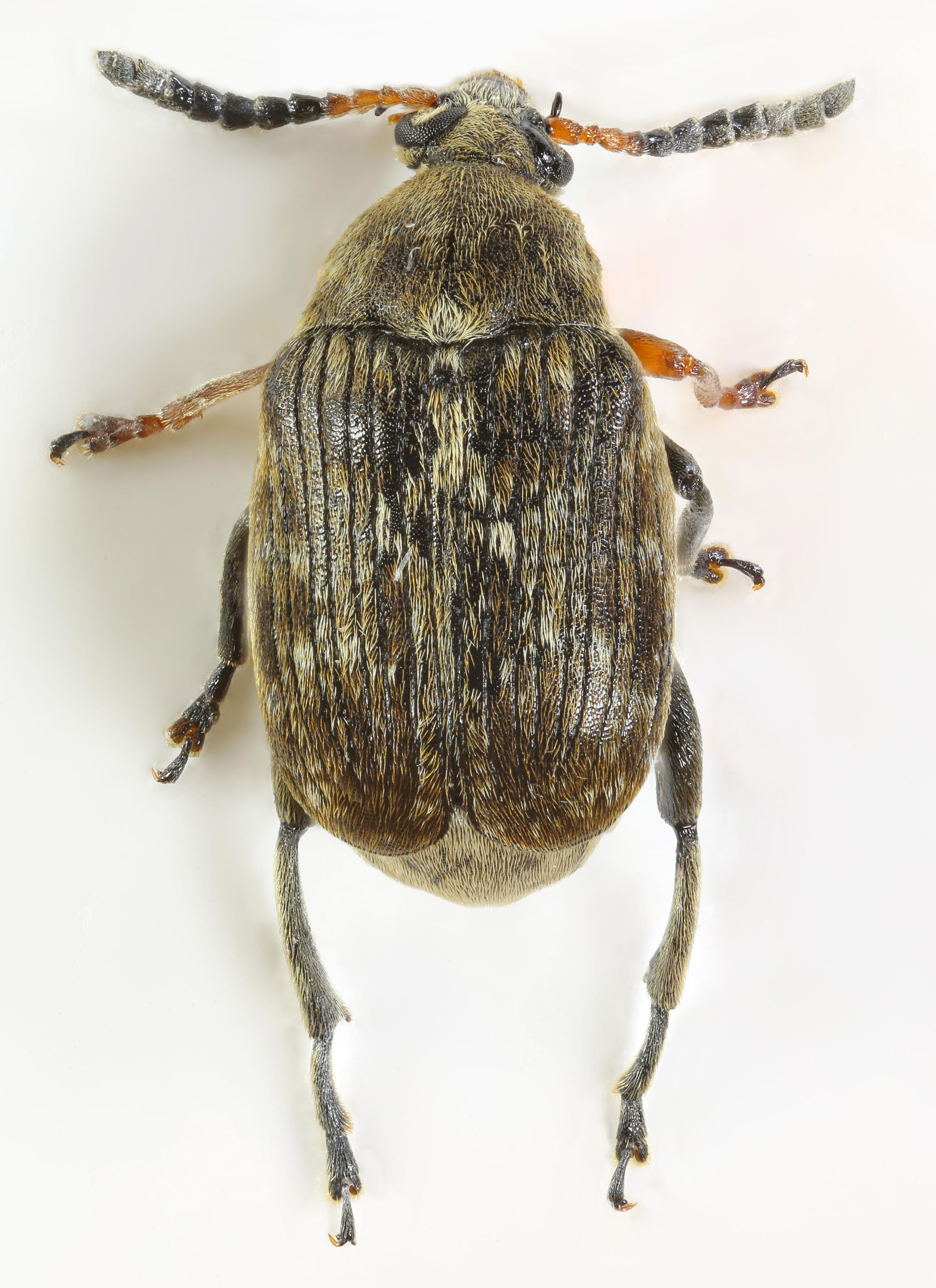 Bruchus rufimanus, Minera, North Wales, May 2017 2